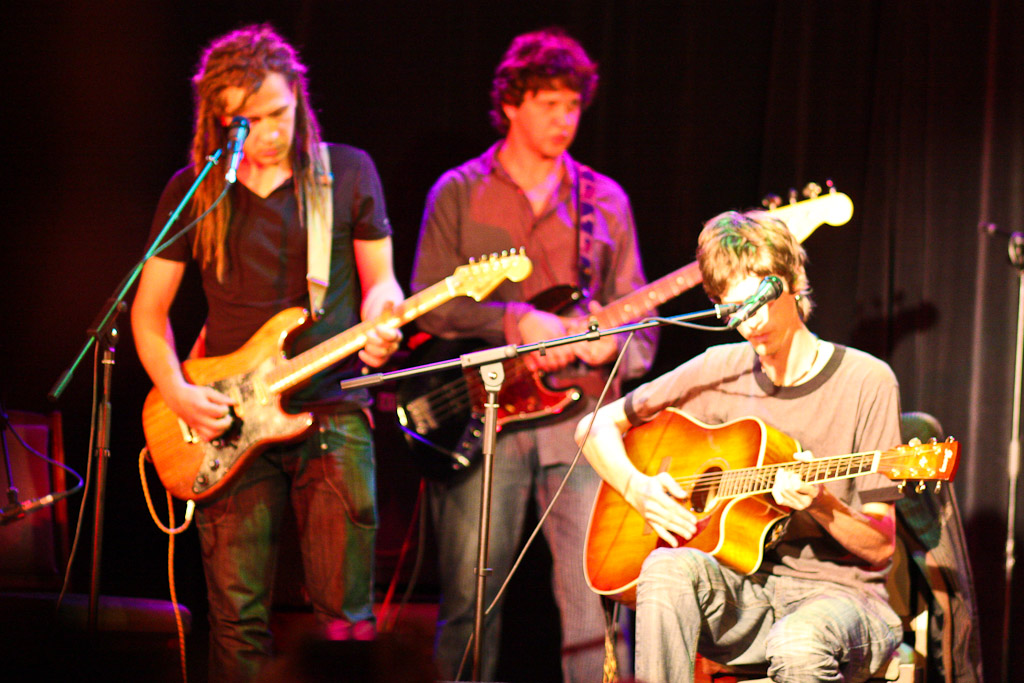 Gaujarts, Latvian indie music band